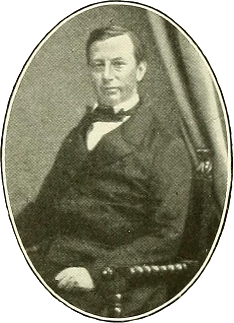 Portrait of the botanist Georg Heinrich Mettenius